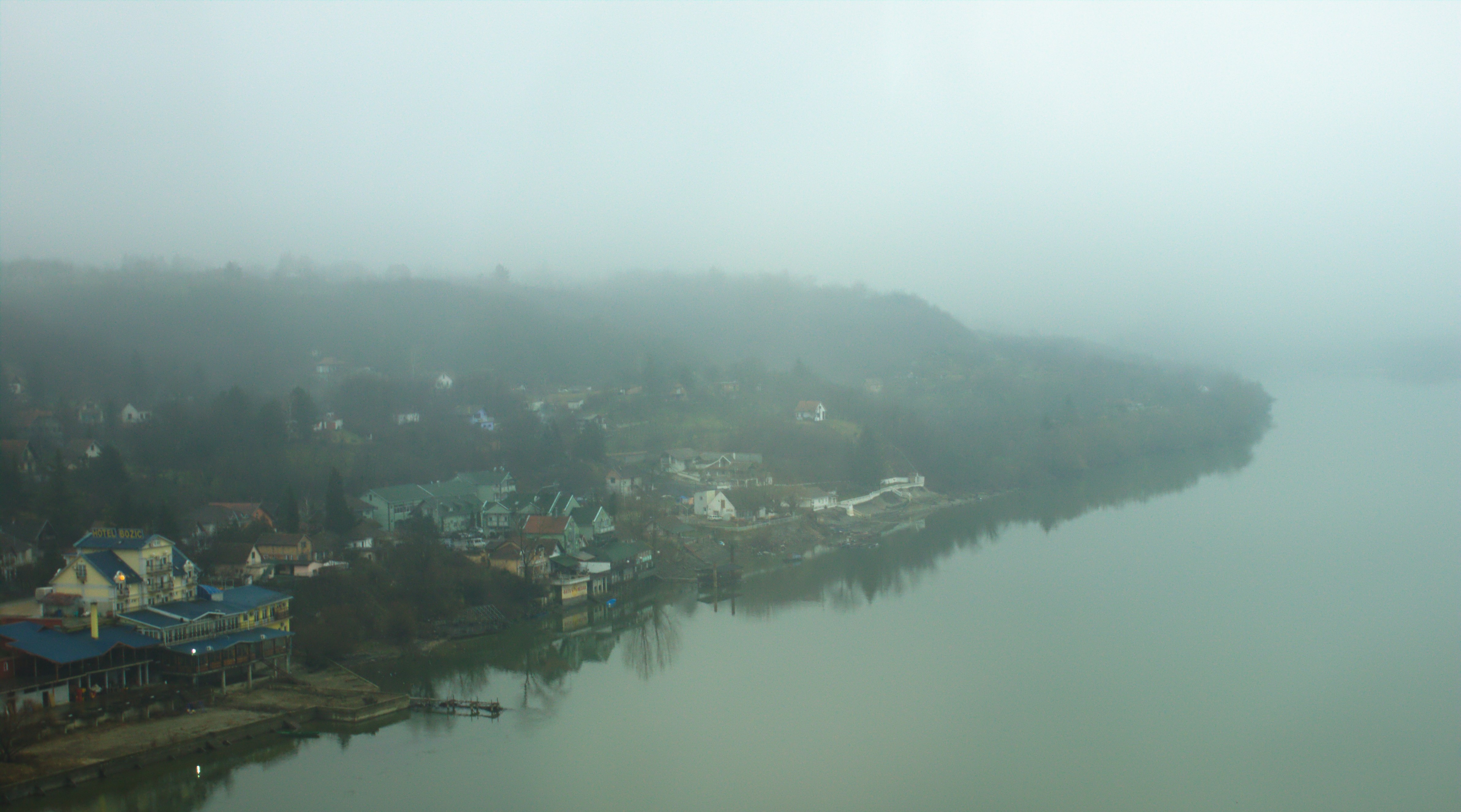 Danube River and the southern riverbank seen from the highway bridge of Belgrade-Novi Sad highway, Serbia